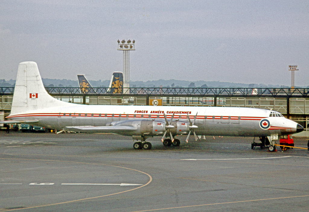 Canadair CC-106 (CL-44) Yukon 15927 of the Canadian Air Force at London Gatwick in 1968.